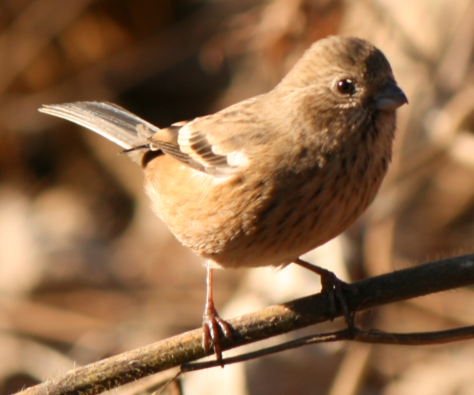 female of Uragus sibiricus (Long-tailed Rosefinch) in Kasugai, Aichi, Japan.